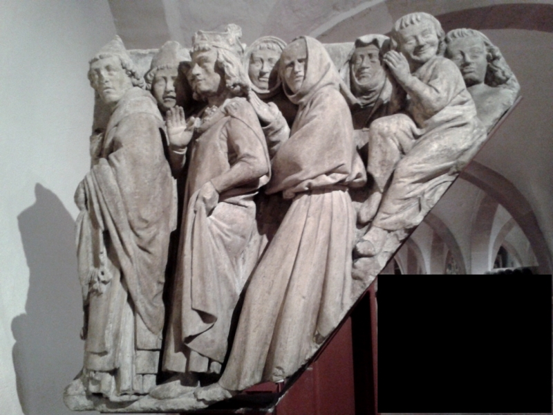 Skulpturengruppe einer Weltgerichtsdarstellung - die Seligen aus dem Mainzer Dom- und Diözesanmusem